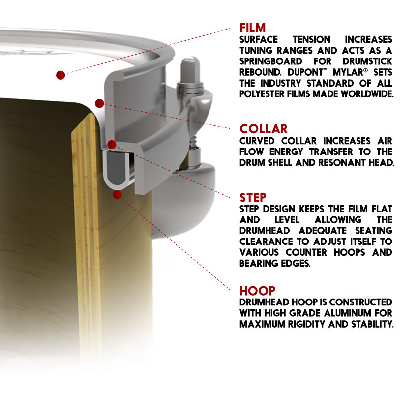 Anatomy of a Drumhead that is used on a drumset drum. It includes the film, collar, step and hoop.